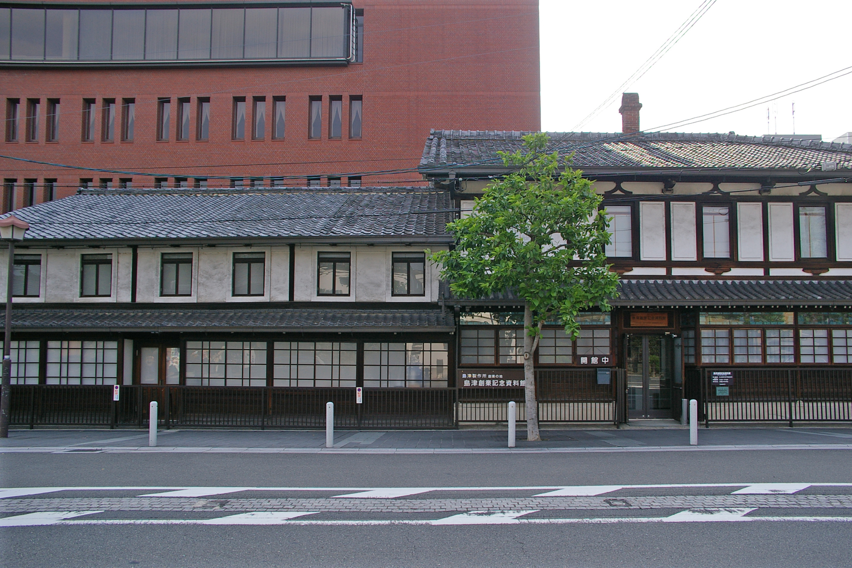 Photograph of Shimadzu Foundation Memorial Hall in Nakagyo-ku, Kyoto, Kyoto Prefecture, Japan.